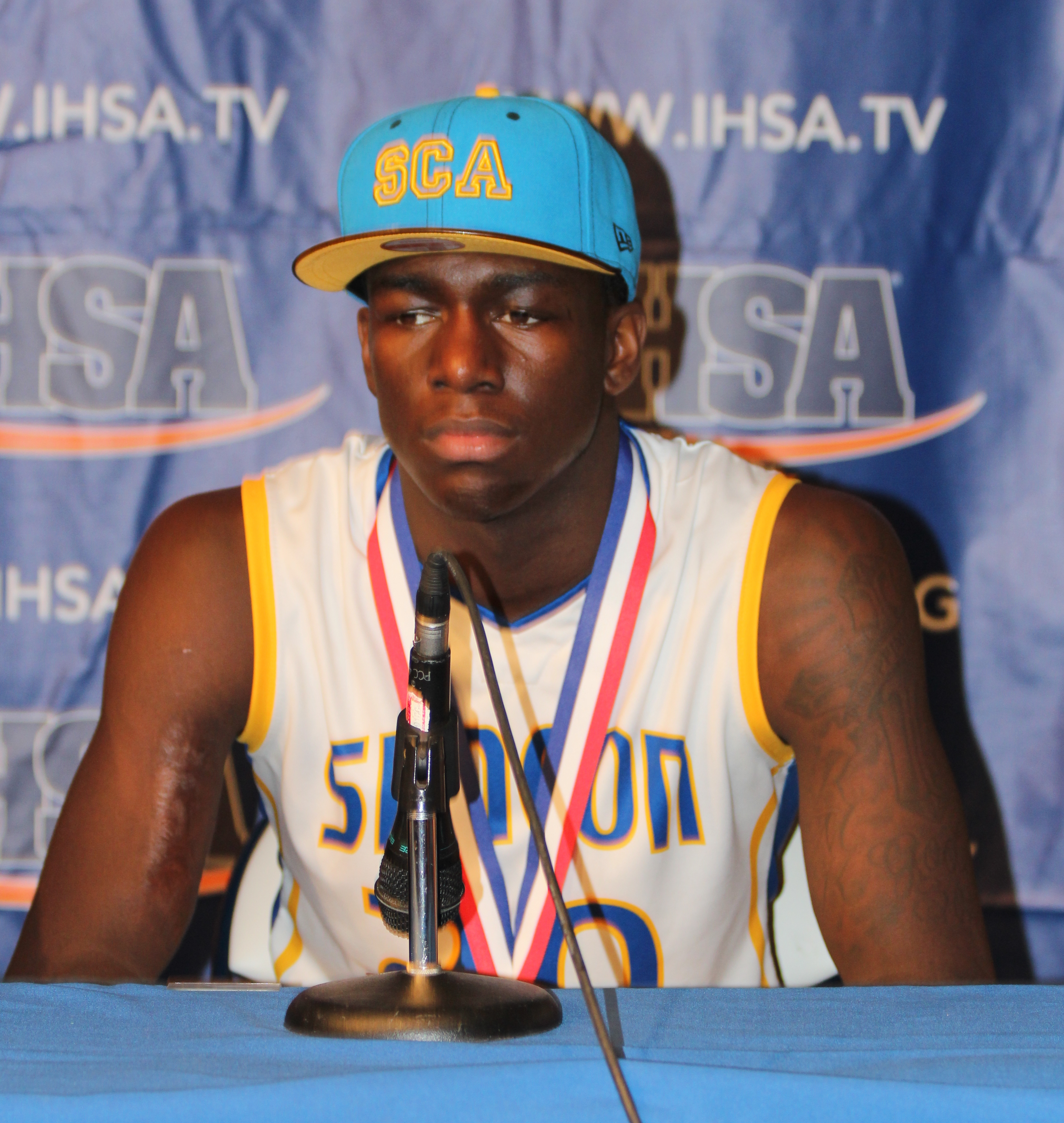 Kendrick Nunn in the 2013 Class 4A Illinois High School Association championship game